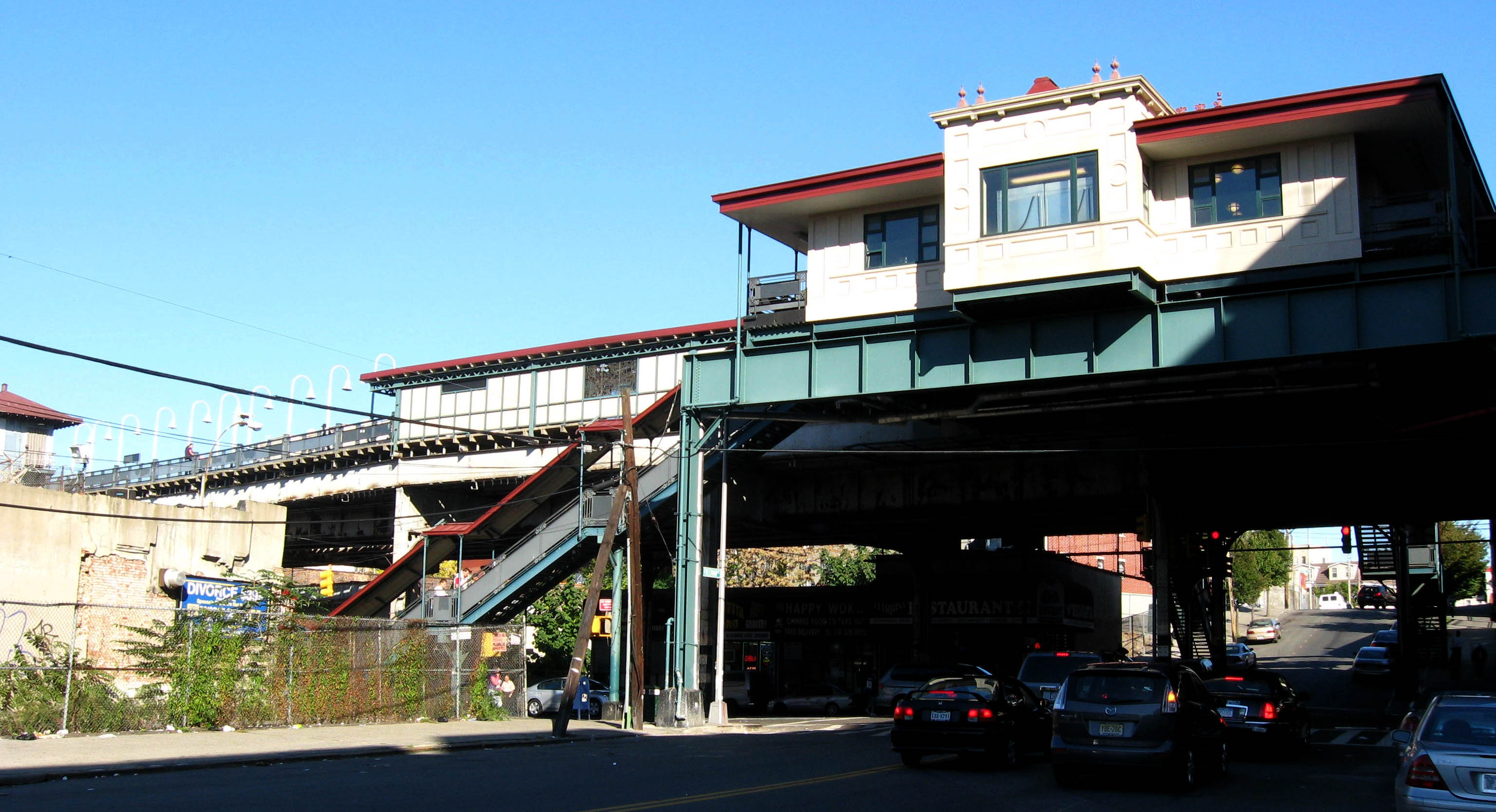 Looking east at Freeman Street (IRT White Plains Road Line) street stairs on a sunny early afternoon